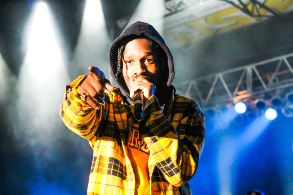 A$AP Rocky in 2013